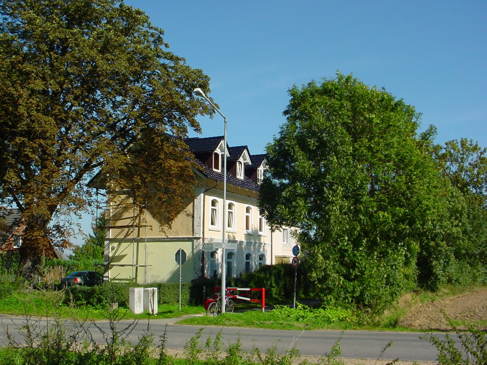 South Stormarn Railroad (now defunct) Hoisdorf station